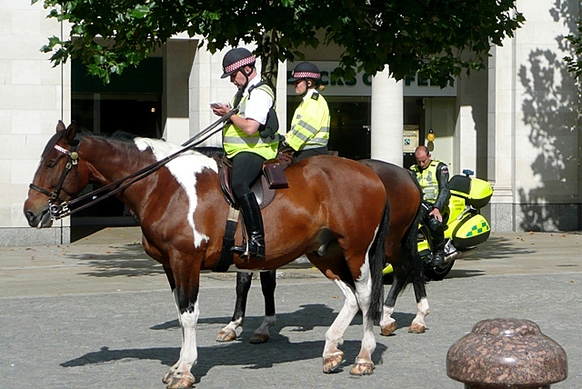 Awaiting some activity Two Police officers on horseback were just waiting around at the west end of the cathedral. Behind them a motorcycle paramedic was also sitting waiting. Nearby were two fire engines. There was "nothing happening" according to the lady Police officer. I did wonder what would have happened if someone had dialled 999 from here, with all three services within hailing distance who would have attended?